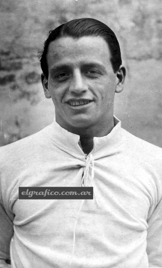 Portrait of Mazali.